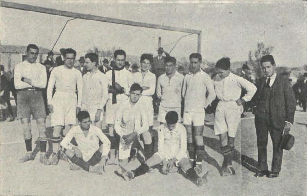 Lineup of Cartagena Football Club during one of the three games played at early February 1920 against Club Natación Alicante, during the Levante Football Championship. This is the first known photograph of Cartagena FC, and thanks to the research of Domingo López, it has been possible to locate it in the former pitch of La Viña (now Plaza de Florida-La Viña, Alicante) and identify the players.